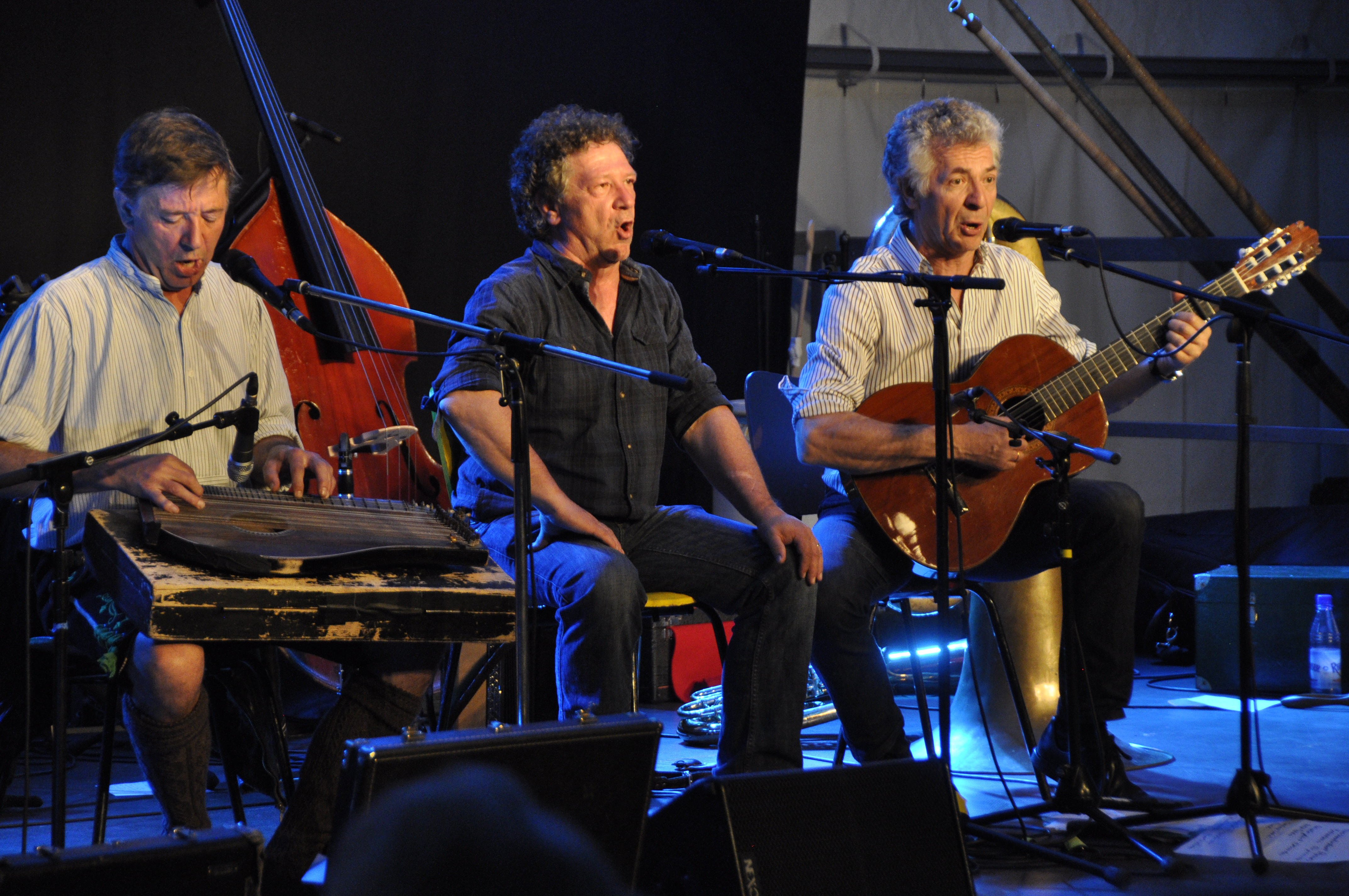 Songfestival 2014 Burg Waldeck, Germany, appearance: Wellbrueder aus'm Biermoos (Christoph, Michael and Karl Well)